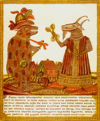 Boar and Goat. Russian lubok. 19 century